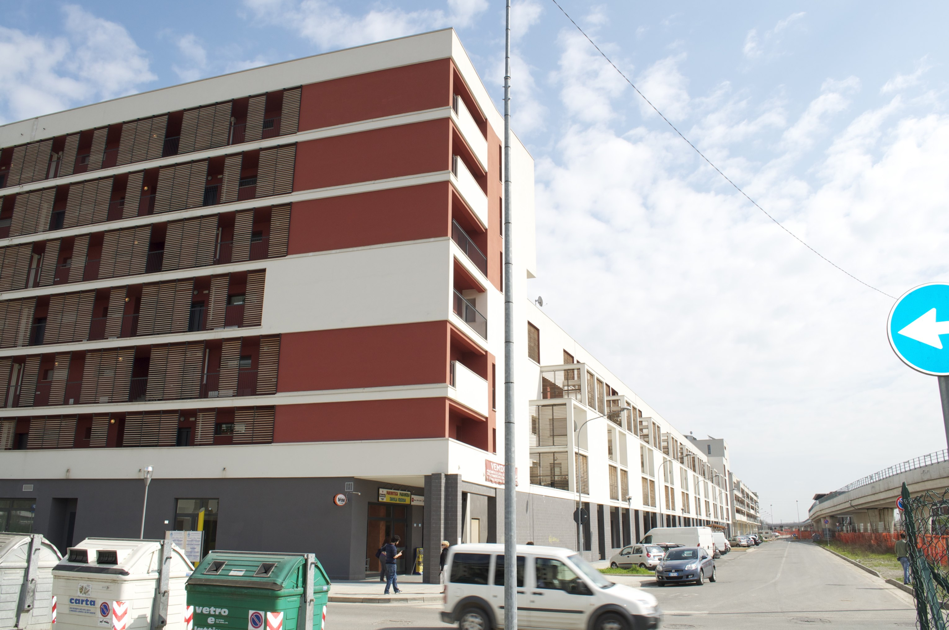 Sanpolino Brescia